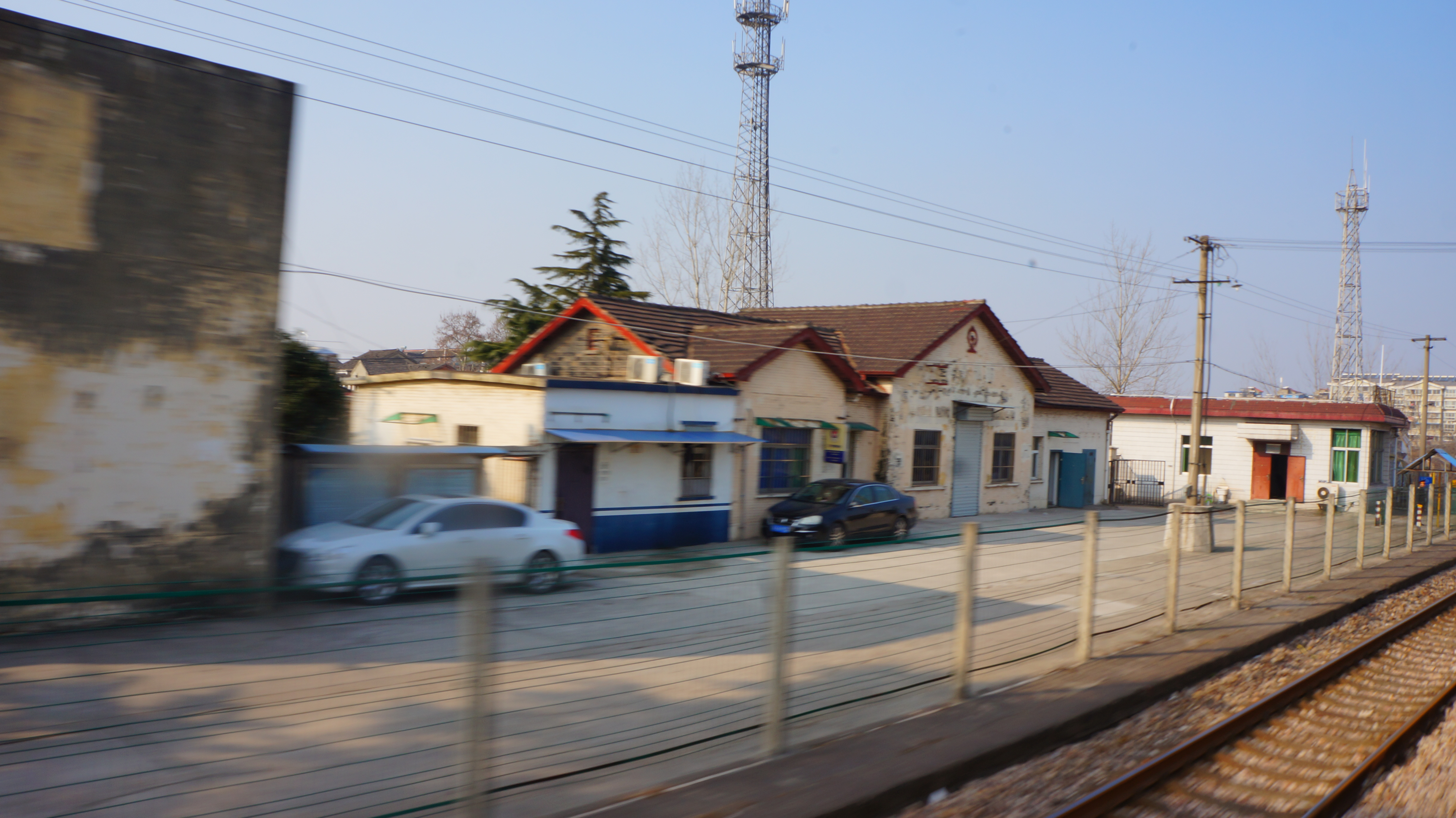 Jiangningzhen Railway Station